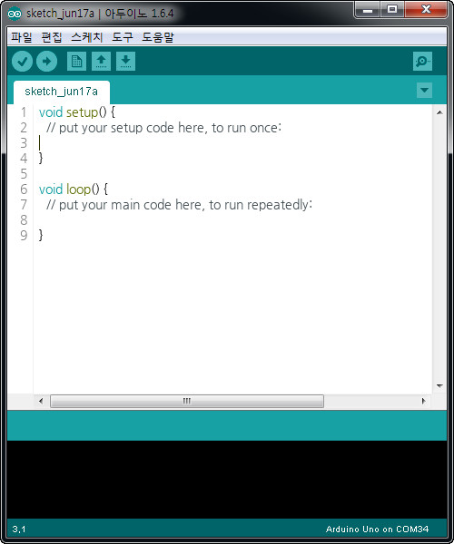 Arduino IDE